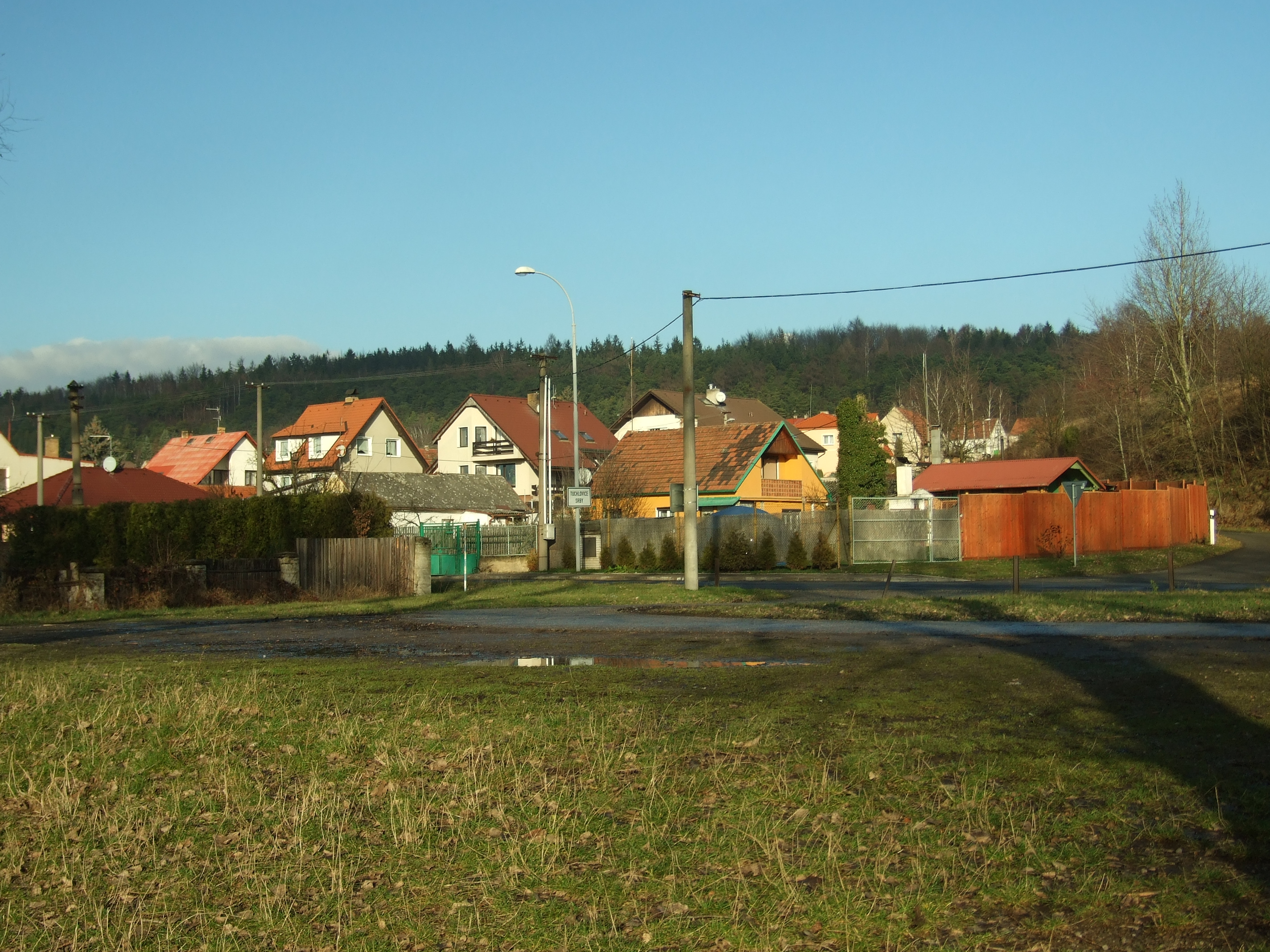 Srby village, Central Bohemian Region, CZ help